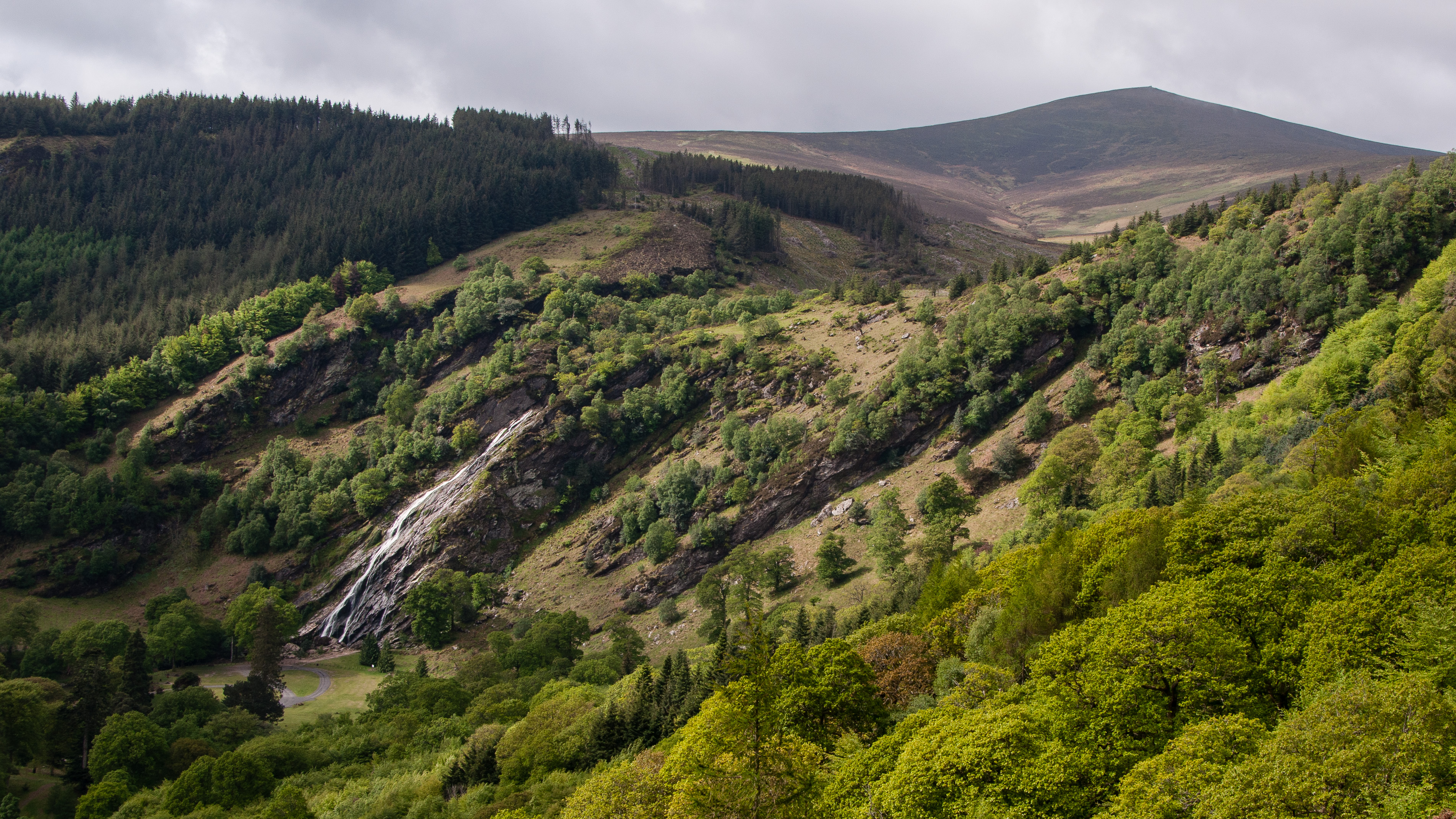 View of Powerscourt Deerpark and Waterfall at Ride Rock, Crone Woods near Enniskerry, County Wicklow, Ireland. At 121 metres, the waterfall is the tallest in Ireland. It is fed by the River Dargle which rises in the Glensoulan valley near Djouce mountain, which can be seen in background.